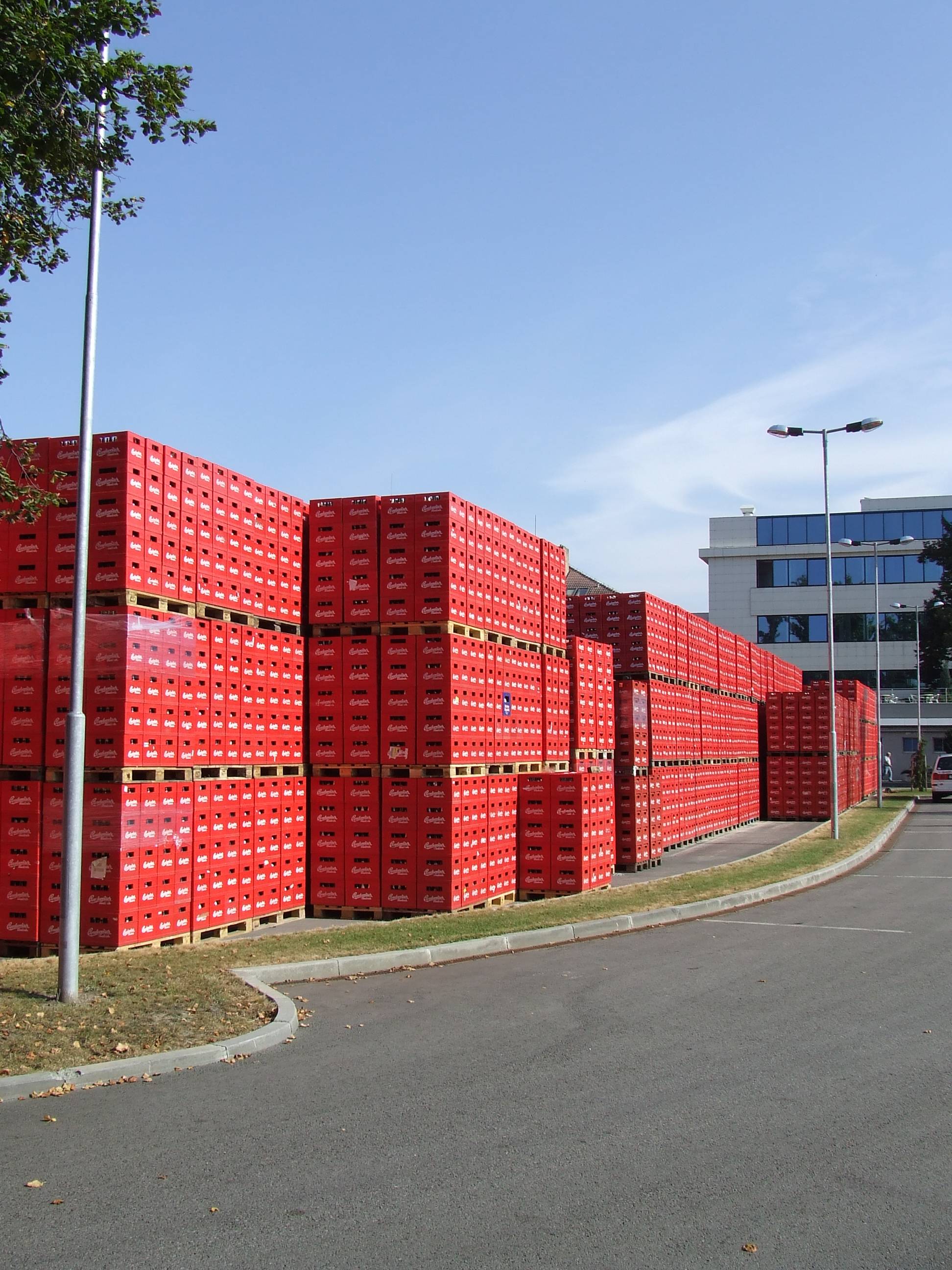 Tour of Budějovický Budvar (Budweiser Budvar) brewery in České Budějovice, Czech Republic.